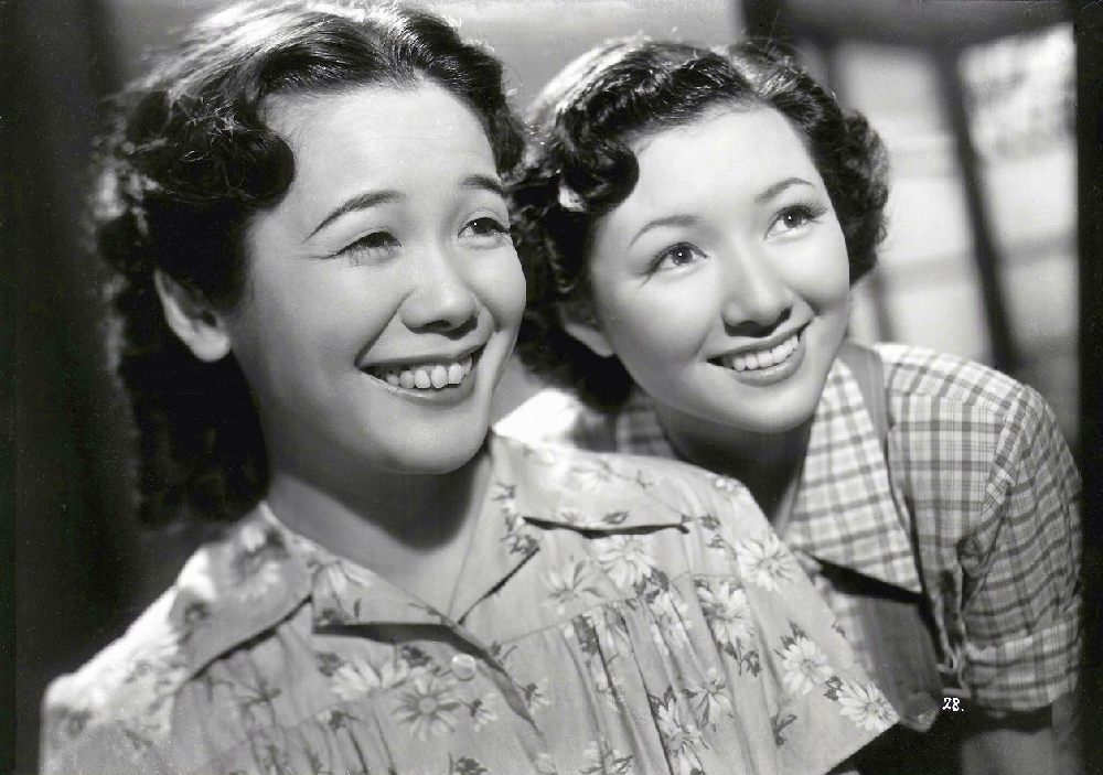 Shizuko Kasagi (1914–85, left) and Hideko Takamine (1924–) in the motion picture Ginza Can-Can Musume (1949)